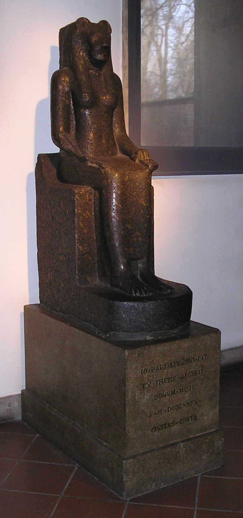 Statue of the egyptian goddess Sekhmet.